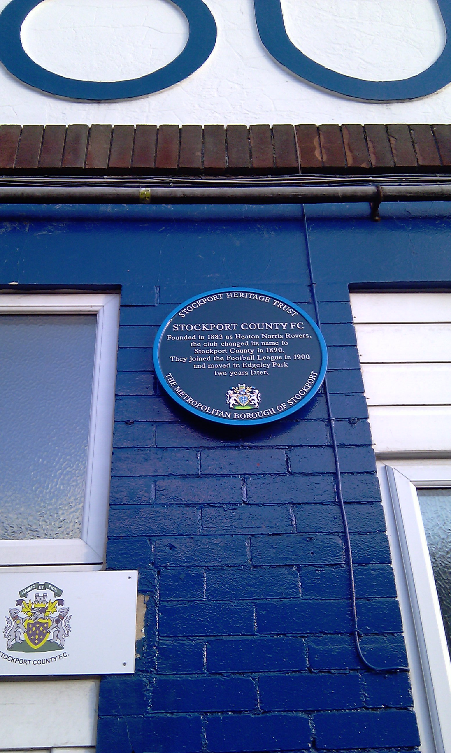 English Heritage Blue Plaque awarded to Stockport County in 2008